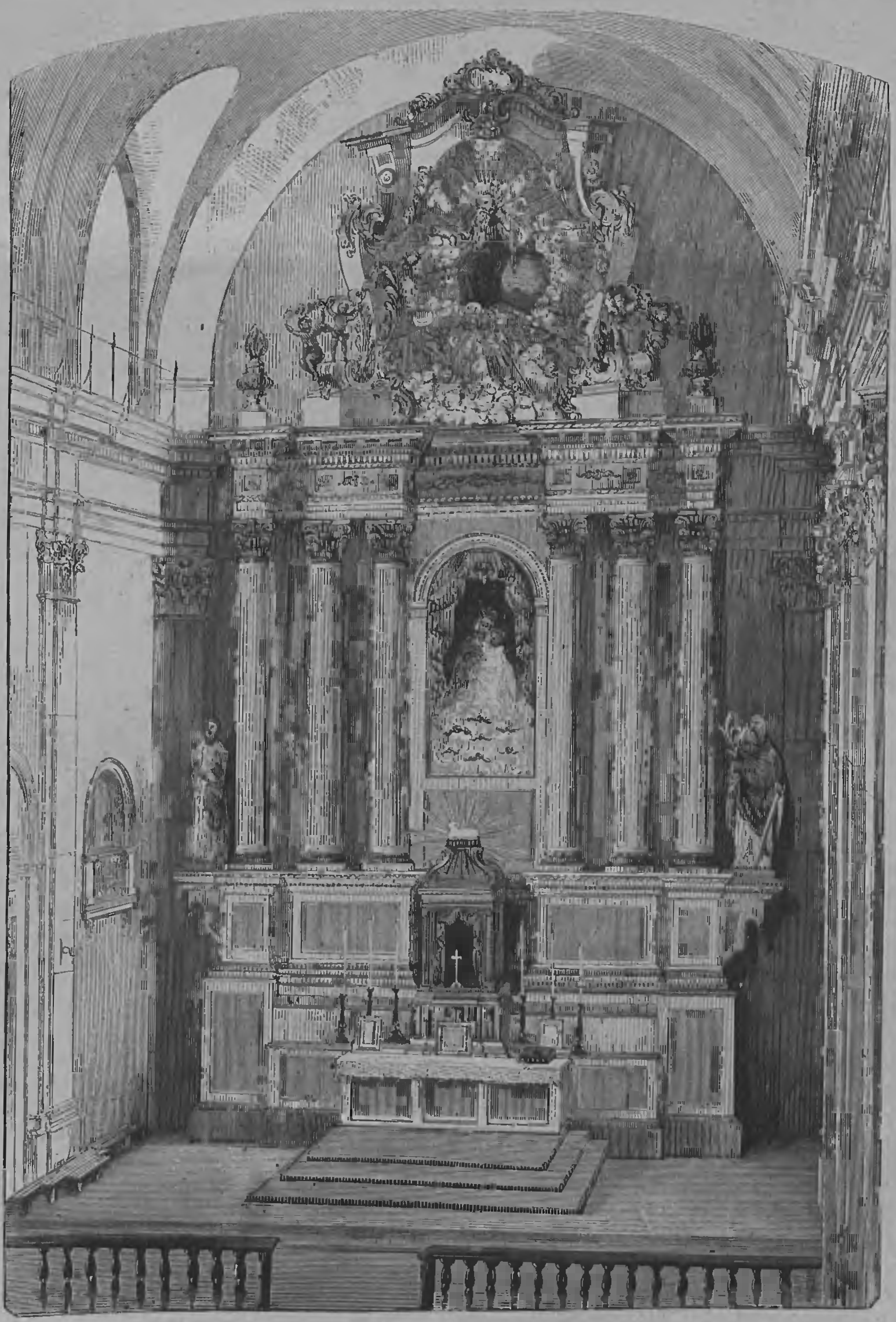 Altar at the church of the Nativity of the Blessed Virgin Mary in Stara Błotnica (1869)